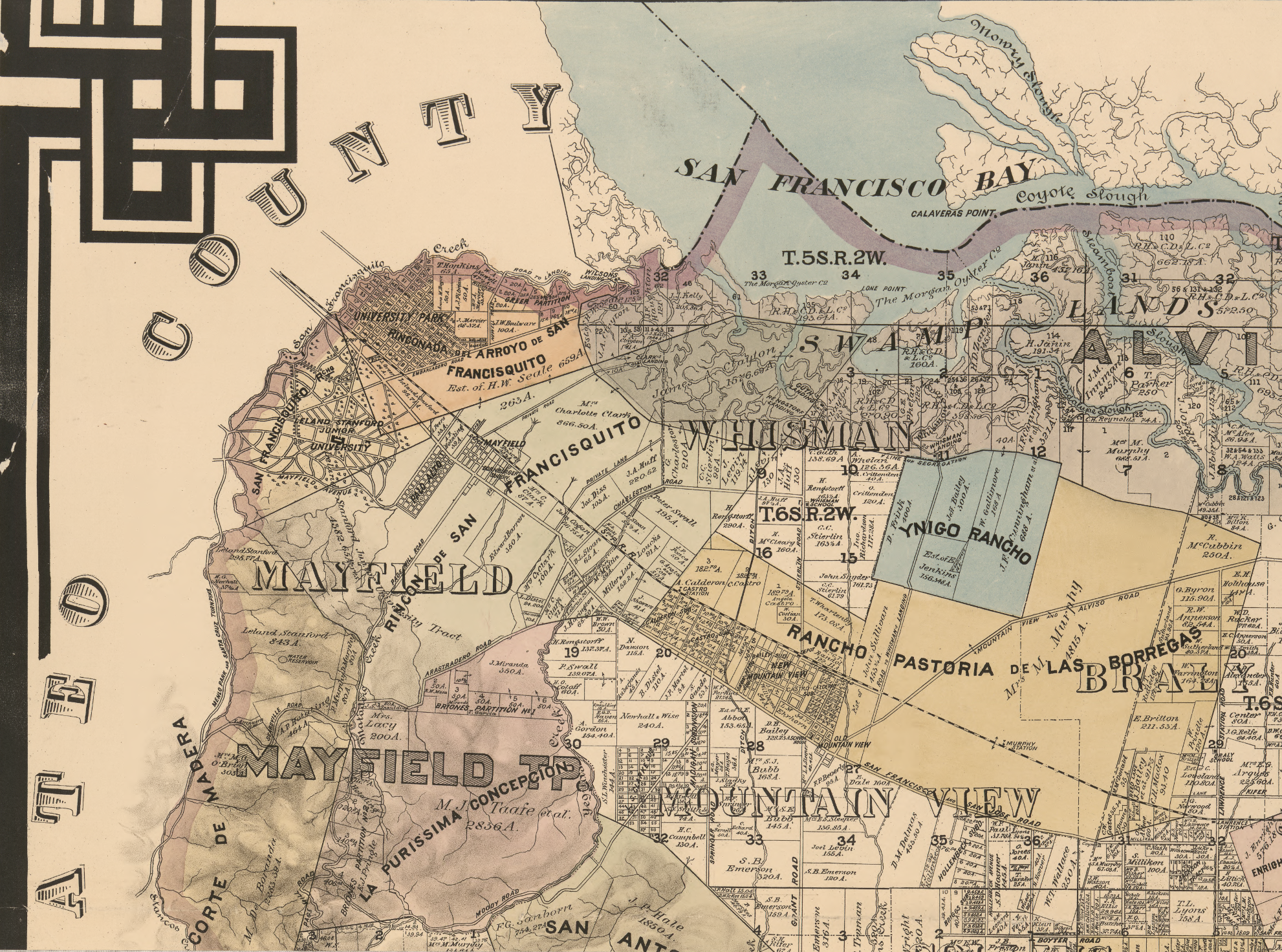 Part of an 1890 map of northern Santa Clara county including all or part of the towns of University Park (now Palo Alto), Palo Alto (now College Terrace in Palo Alto), Mayfield (now part of Palo Alto), and Mountain View. Also shows Stanford University